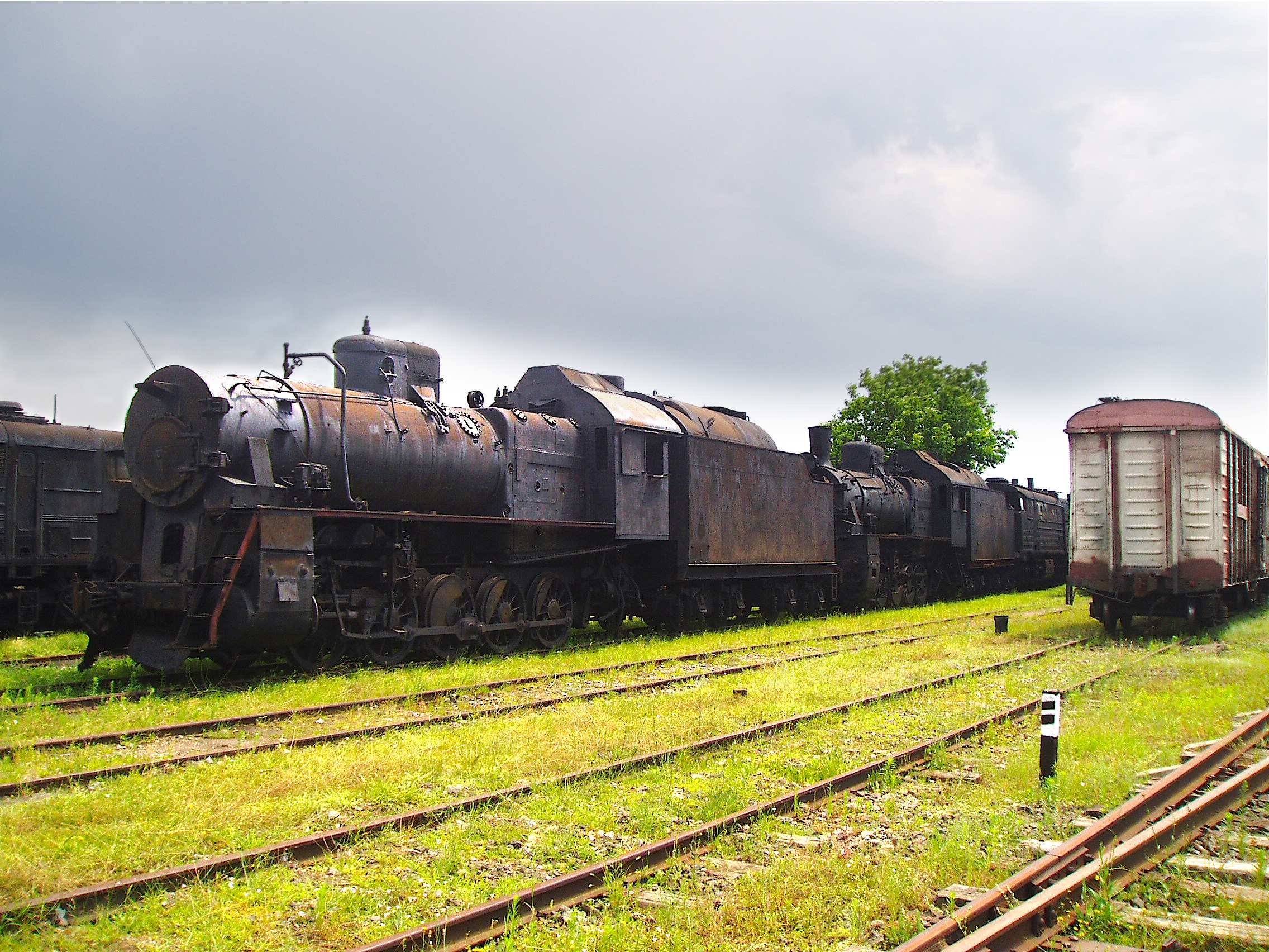 We found this on our way from Chisinau to Comrat, and it was accessible from the road.